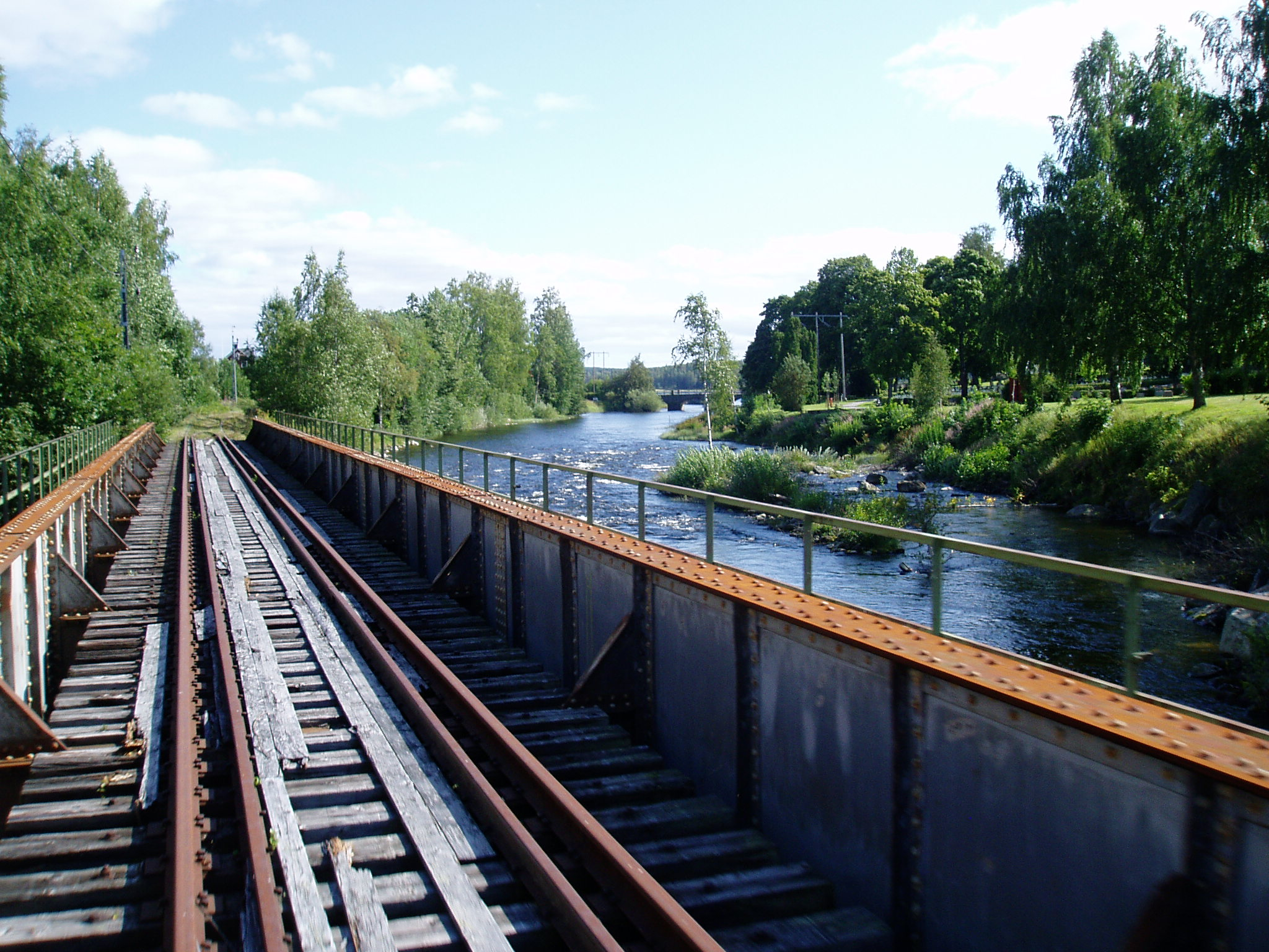 Railway bridge near Forsa at Dellenbanan railway between Delsbo and Hudiksvall in Sweden